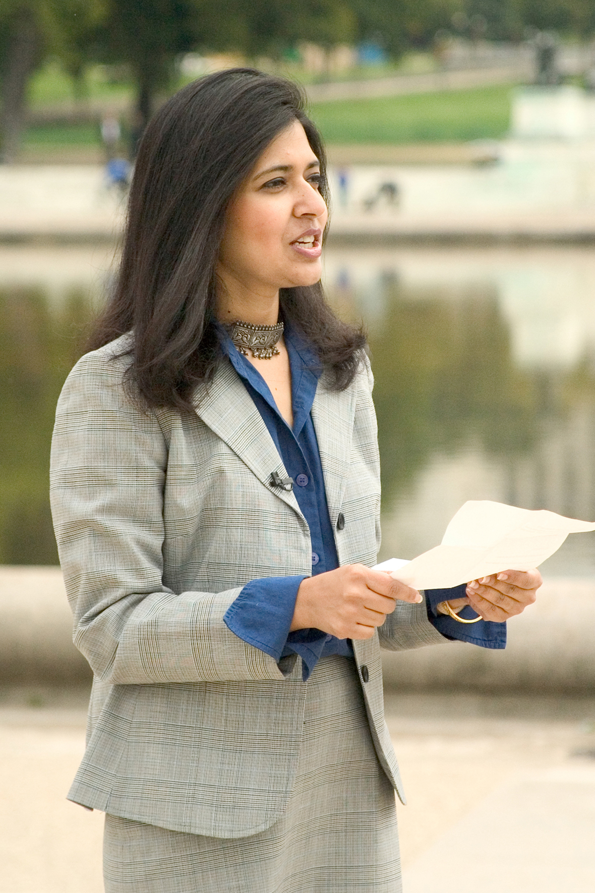 Indian reporter and news presenter Niharika Acharya, broadcasting in Hindi for the Voice of America from Capitol Hill, Washington, D.C.